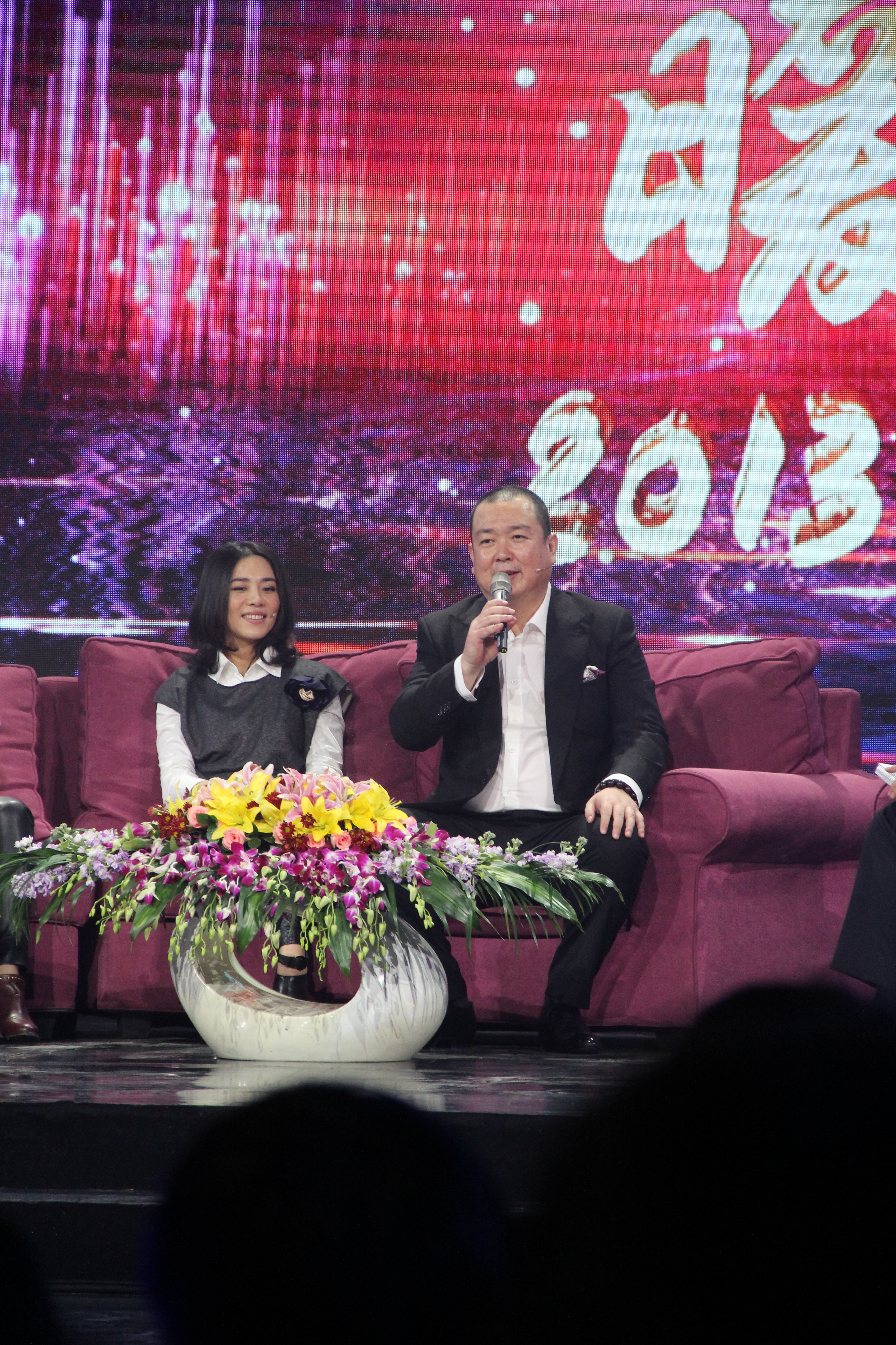 This photo was taken during the filming of Chinese talk show Art Life. In this episode, cast and director of popular TV drama We Let Married were invited.